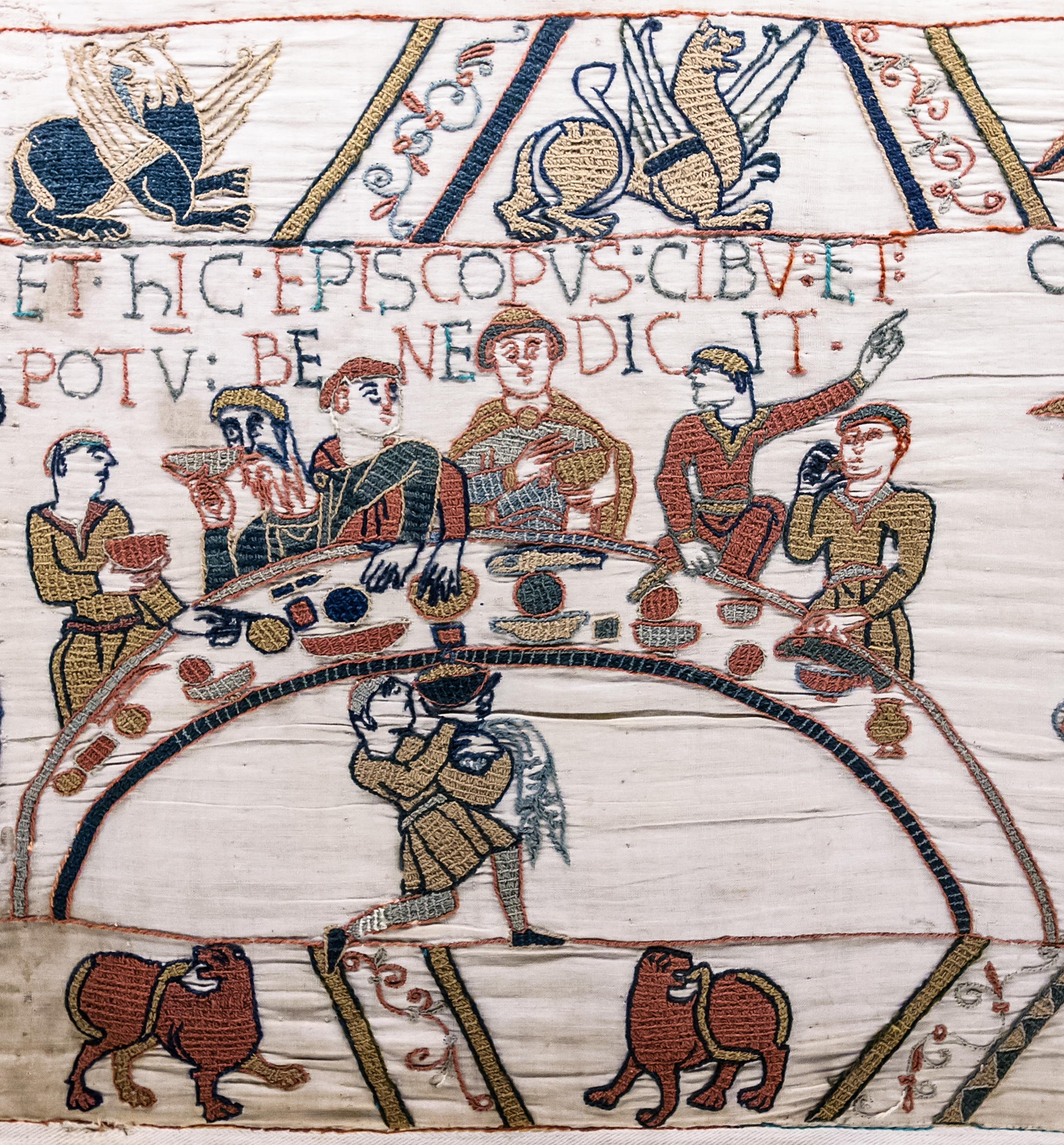 Bayeux Tapestry - Scene 43: Bishop Odo blesses the first banquet that Duke William and the Norman Barons hold on English soil. The bishop is recognisable by his tonsure and also by the fish in front of him. Titulus: ET HIC EPISCOPUS CIBU[M] ET POTU[M] BENEDICIT (And here the bishop blesses the food and drink)